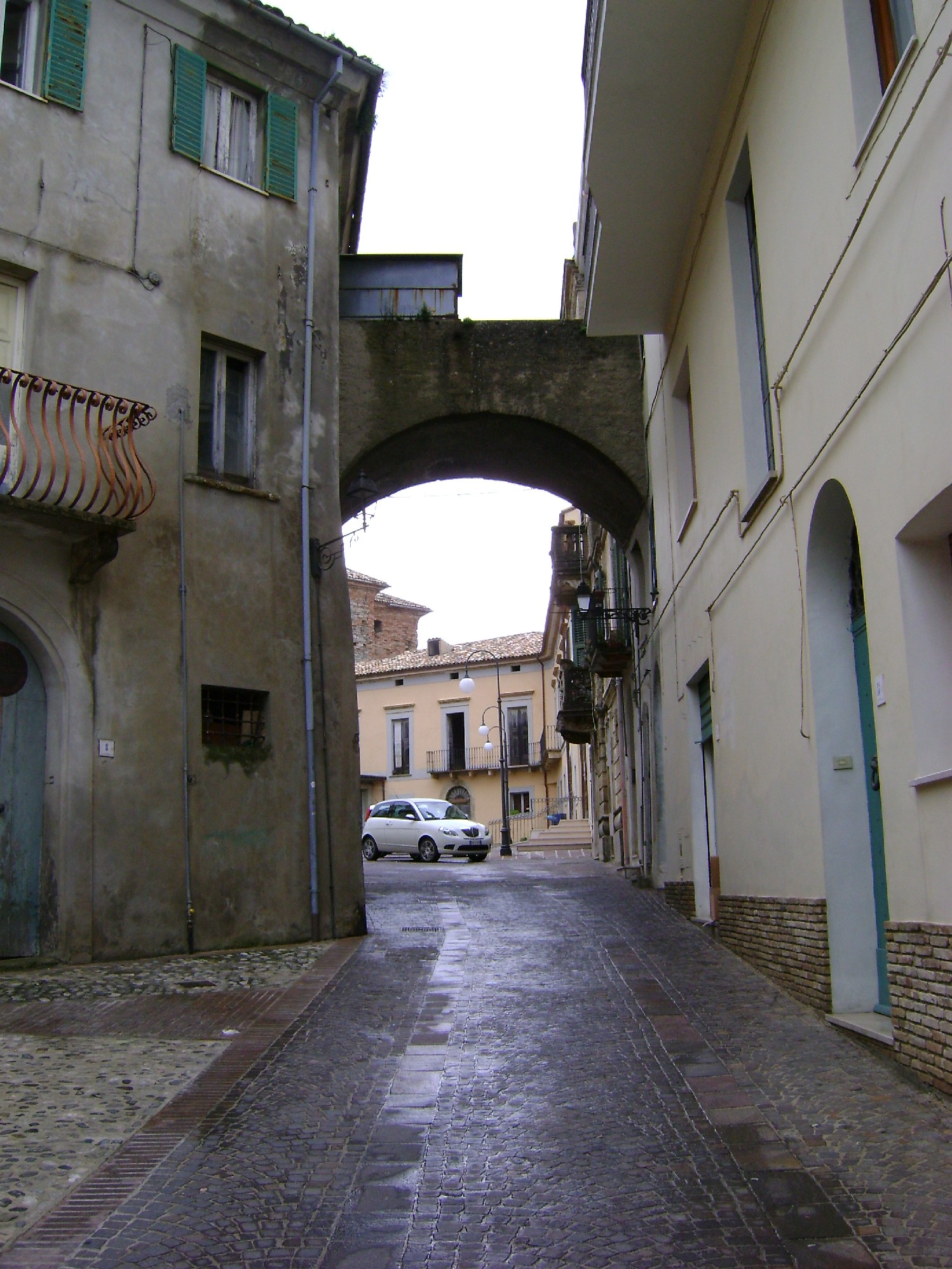 Igino Vergilj square, Castel Frentano, province of Chieti.